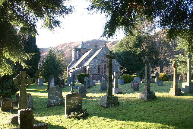 All Saints' parish church, Watermillock, Cumbria (formerly Cumberland), seen from the east